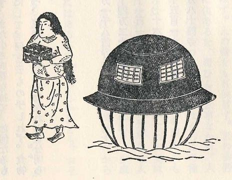 legendary 'Utsurofune' (also 'Utsuro-bune') from 1825